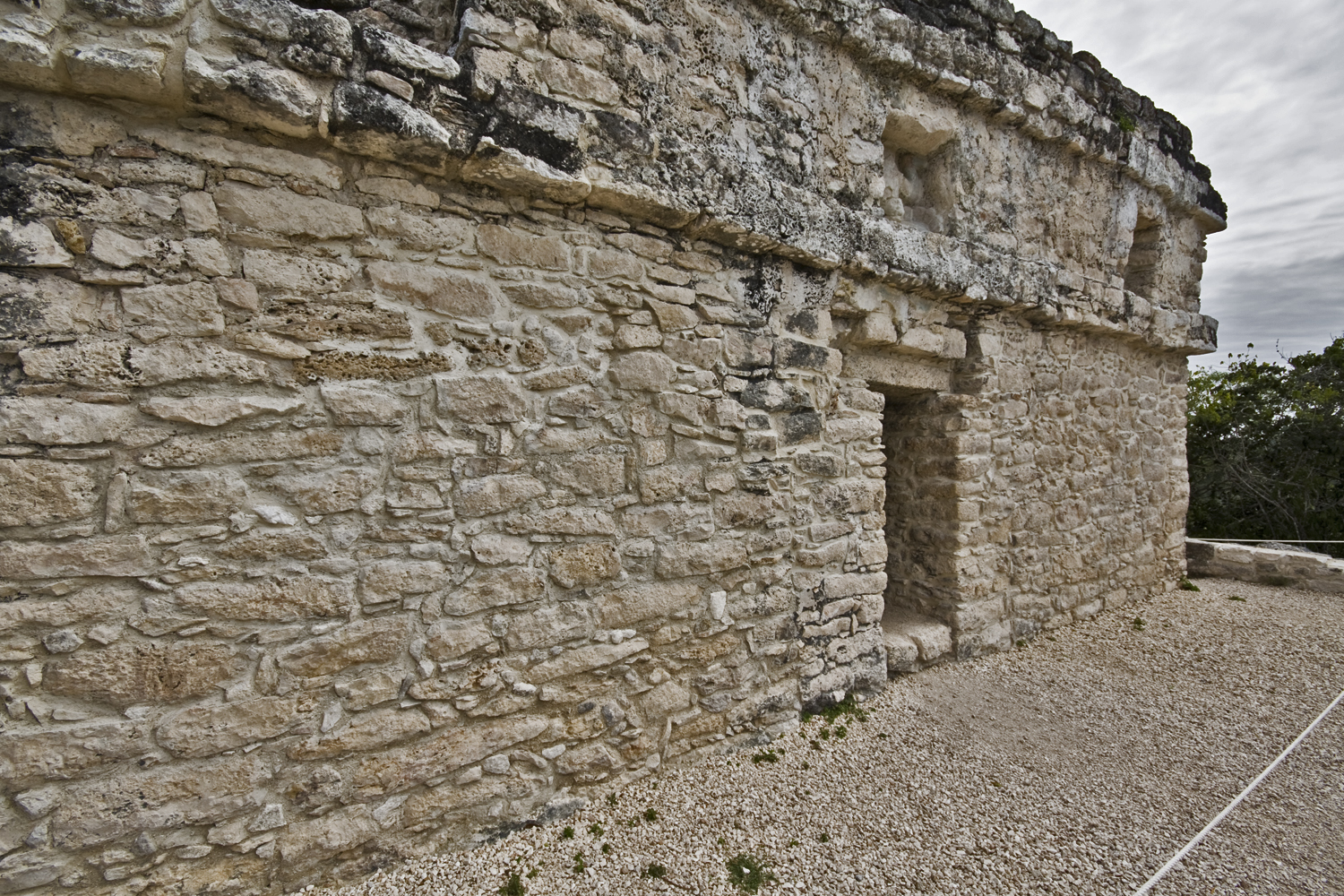 Ritual space at the top of Nohoch Mul-Pyramide in Cobá, Mexico